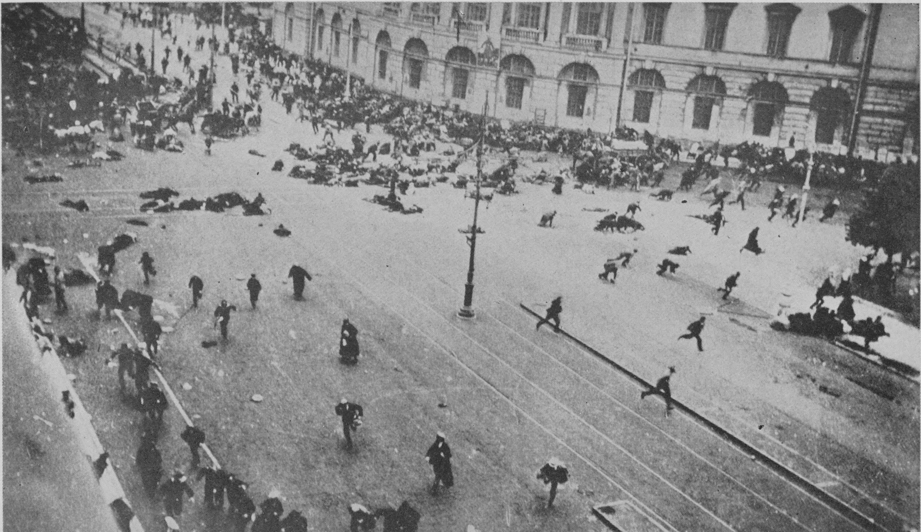 Petrograd, July 4, 1917. Street demonstration on Nevsky Prospekt just after troops of the Provisional Government have opened fire with machine guns.